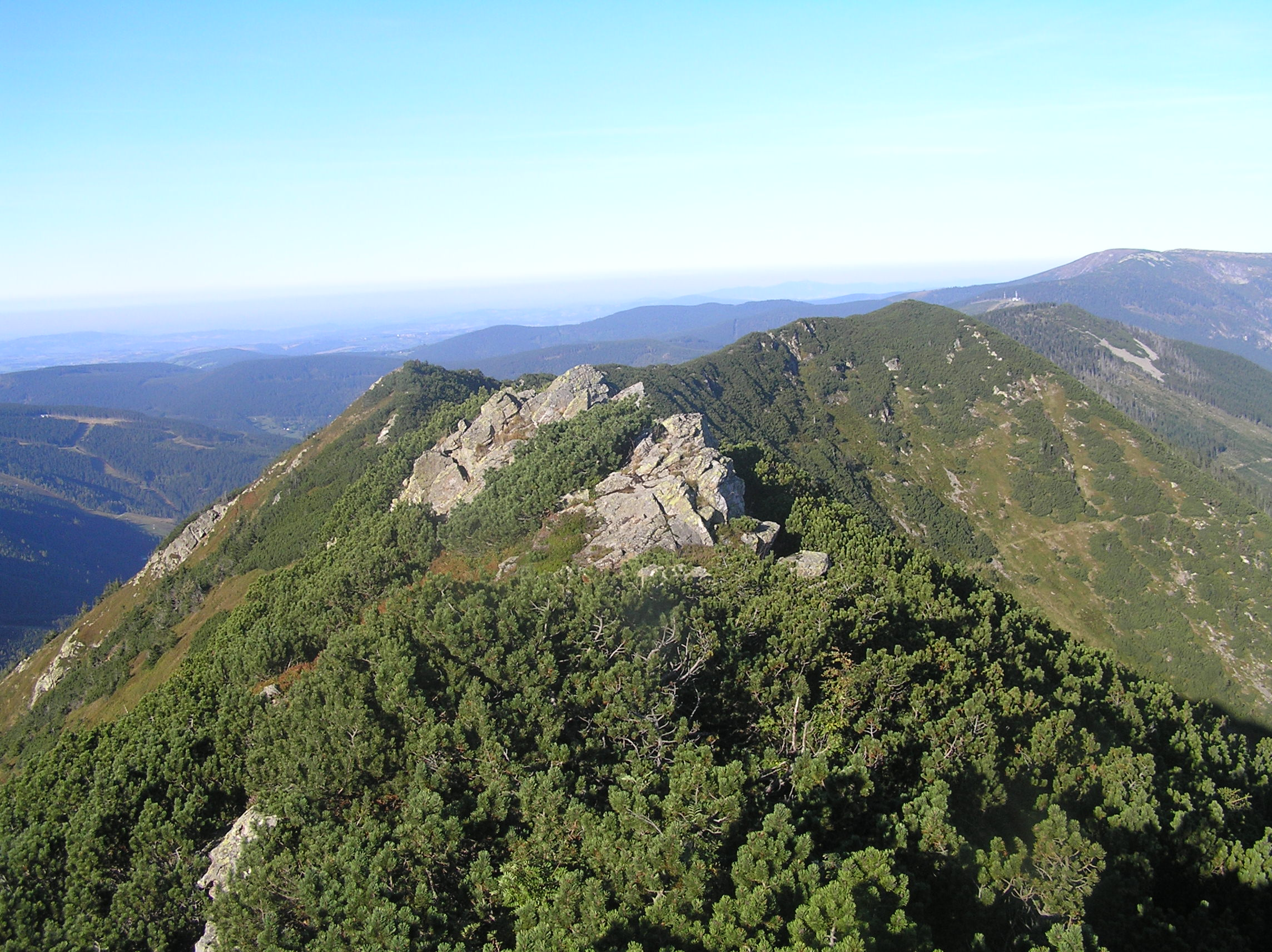 Kozí hřbety, Krkonoše, Czech Republic